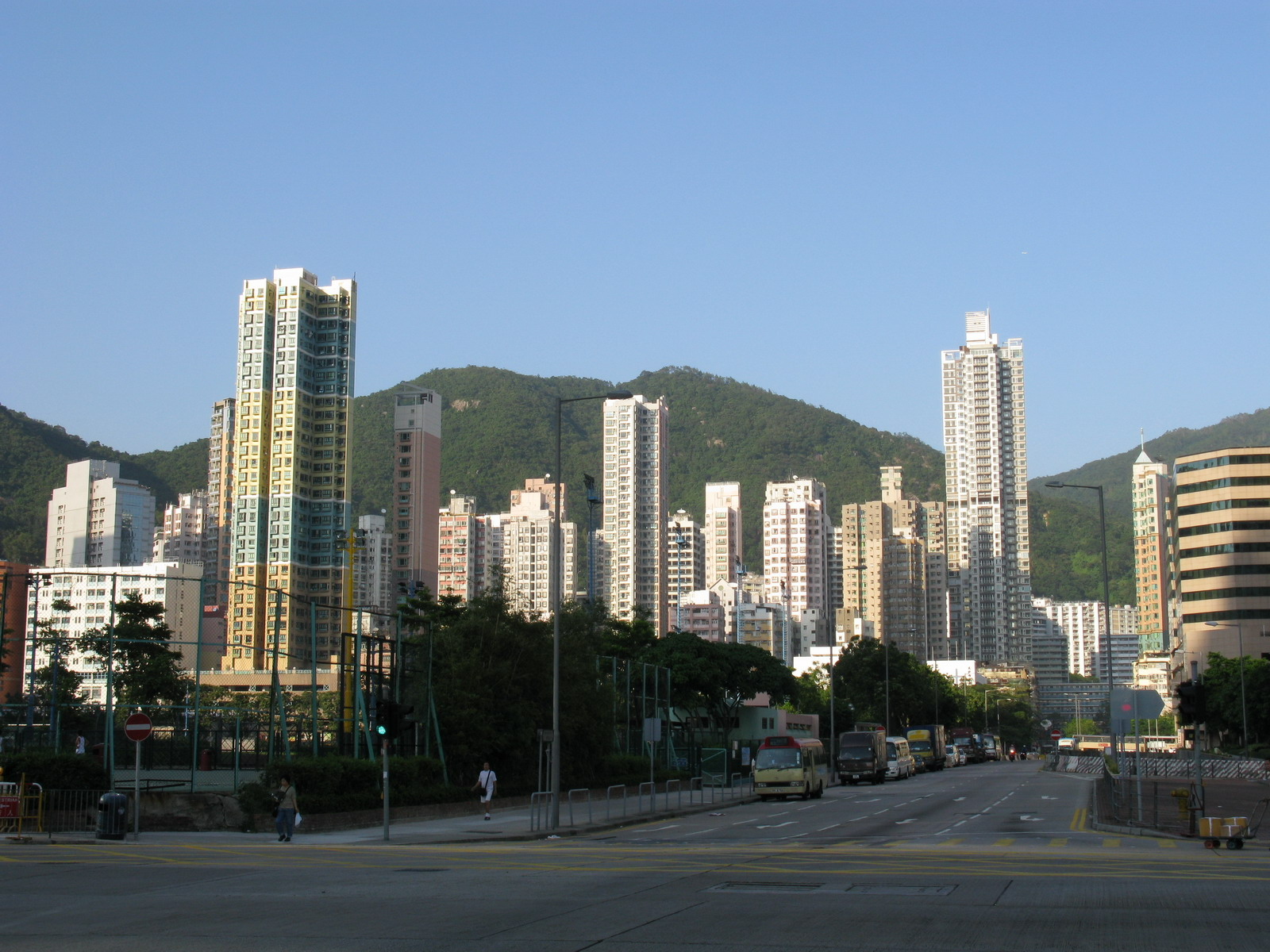 Hing Wah Street, Cheung Sha Wan